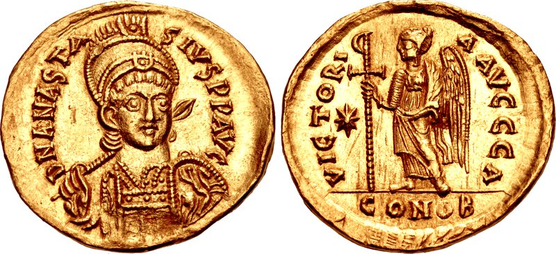 Anastasius I. 491-518. AV Solidus (21mm, 4.47 g, 6h). Constantinople mint, 1st officina. Struck 507-518. Helmeted and cuirassed bust facing slightly right, holding spear over shoulder and shield / Victory standing left, holding staff surmounted by reversed staurogram; star to left; A//CONOB. DOC 7a; MIBE 7; SB 5.